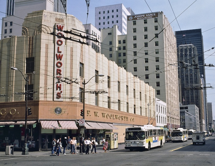 The Downtown Seattle Woolworth's store, located at 3rd Avenue and Pike Street, in 1986. The store opened in 1940 and remained in operation until January 1994. After a period of vacancy, the building became a Ross Dress for Less store in late 1995. This view is looking south on 3rd Avenue, and three Metro Transit trolleybuses are northbound.